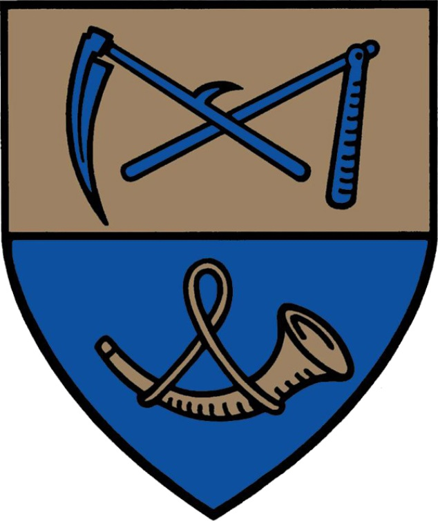 Coat of arms of Lannach, Styria, Austria